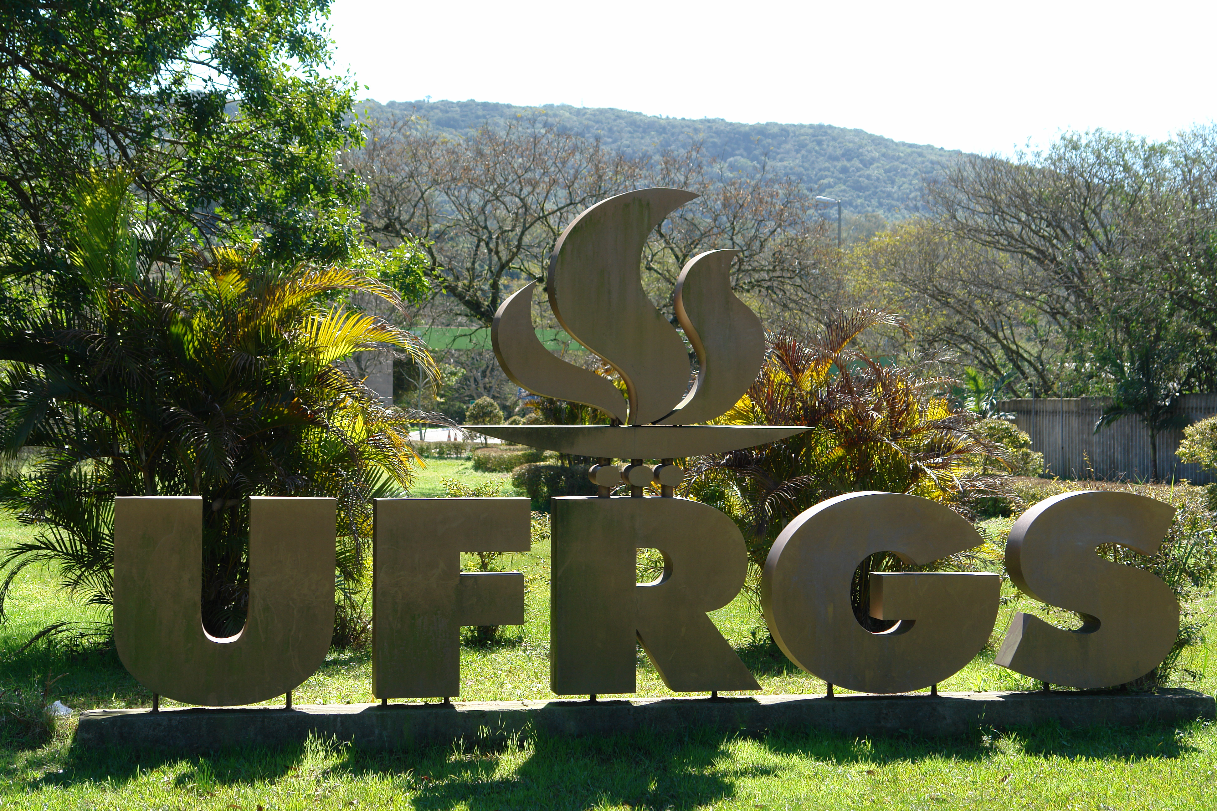 Entrada Valle